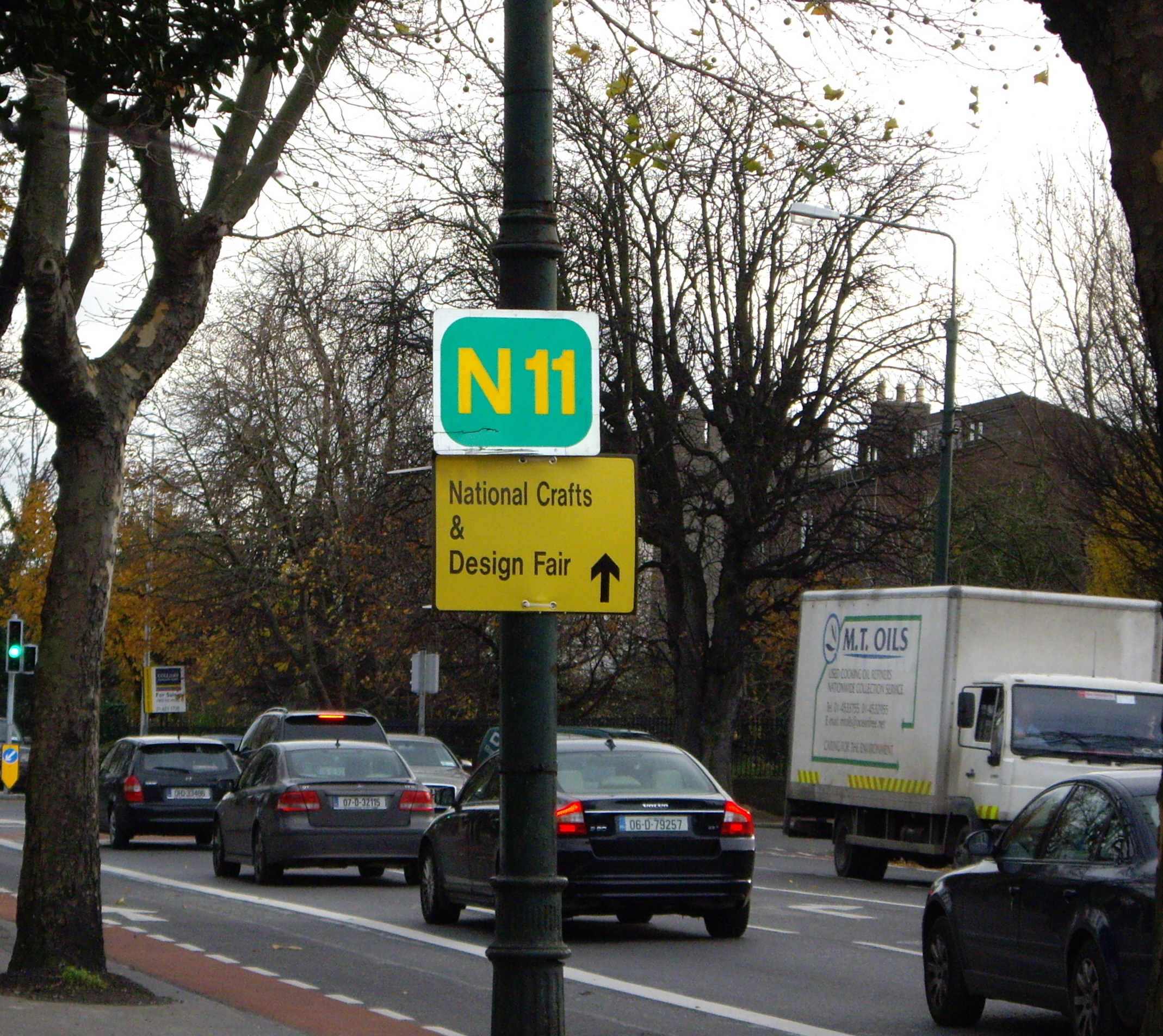 N11 road sign on Lower Leeson Street, Dublin 4.